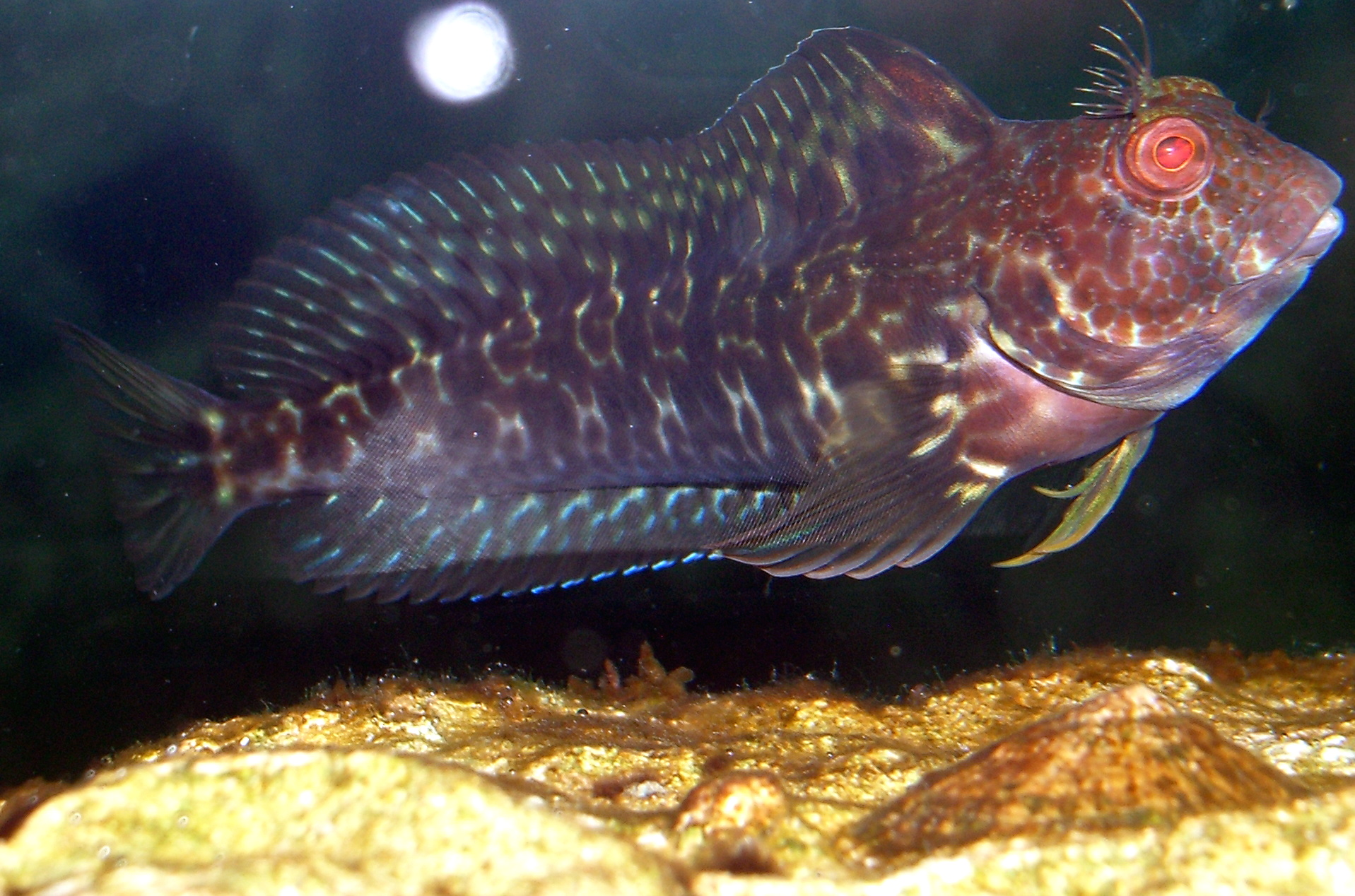 A Parablennius pilicornis male in the spanish mediterranean coast.